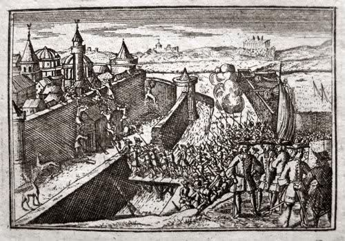 1688 assault on Belgrade